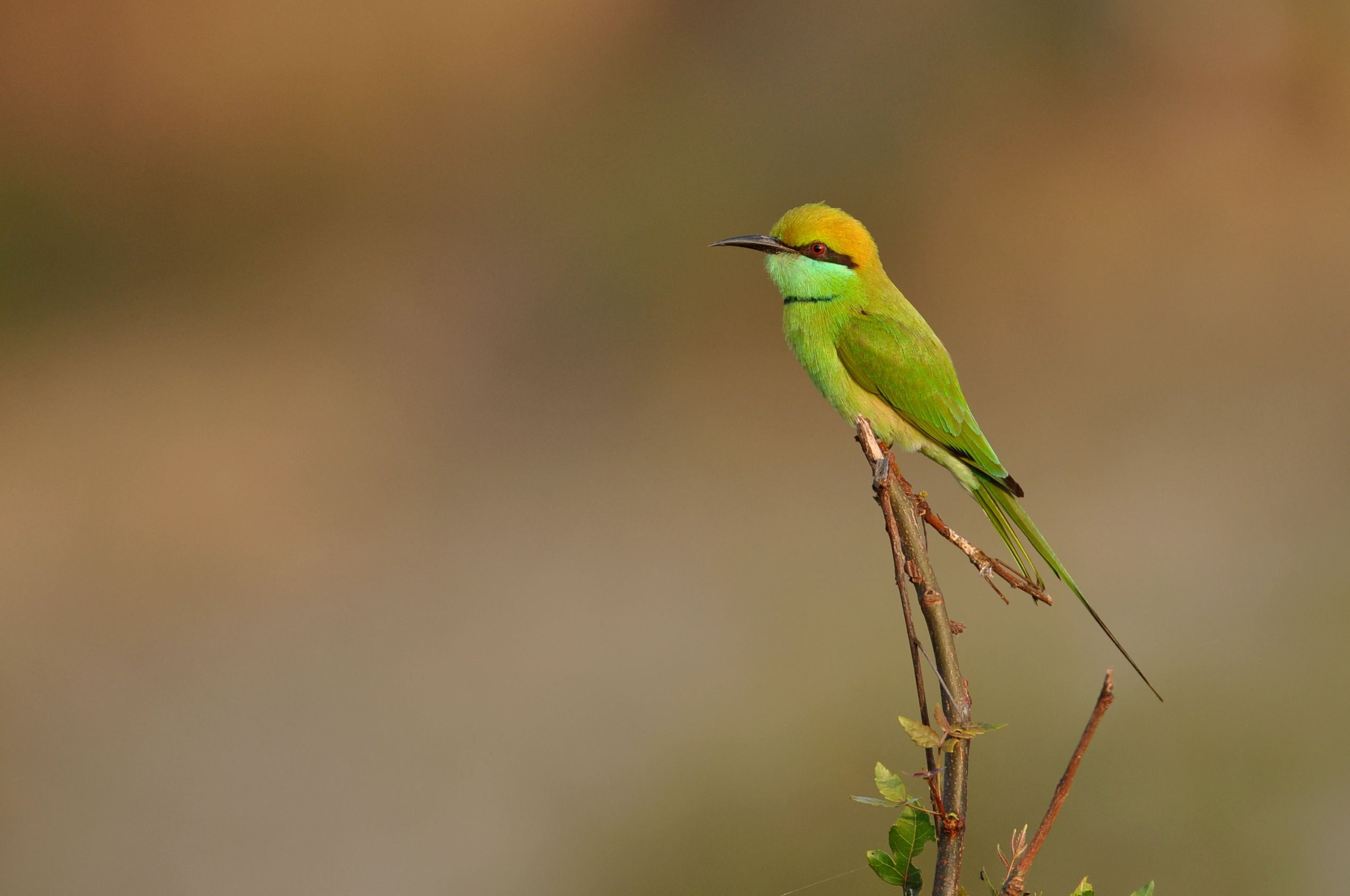 Green Bee-Eater near Daroji, Karnataka